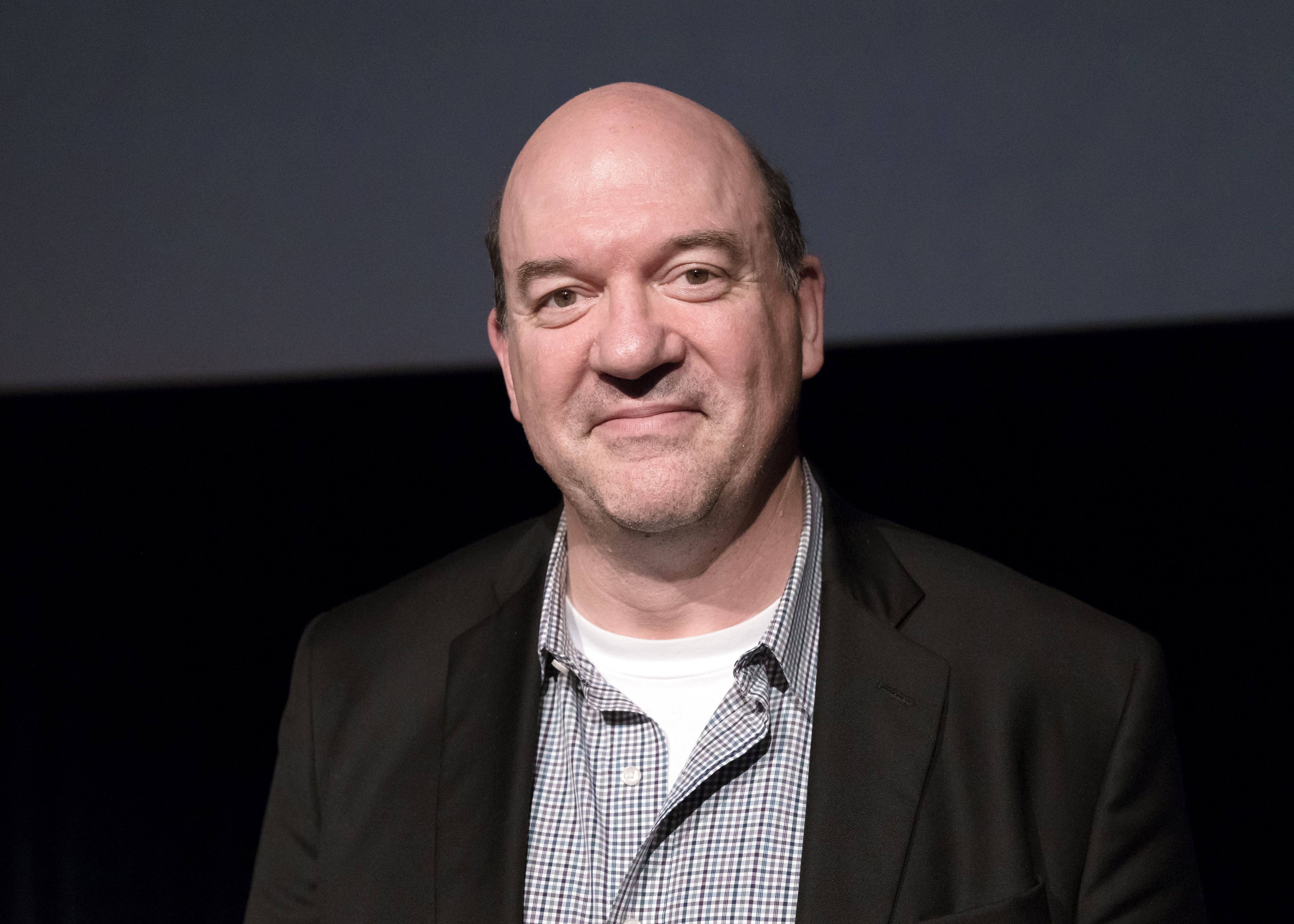 John Carroll Lynch (Lucky) at the Vienna International Film Festival 2017 (festival center at MuseumsQuartier, Vienna, Austria).